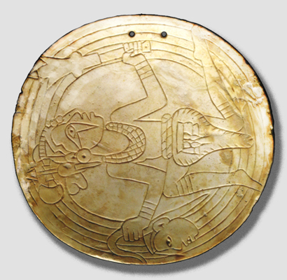 A Braden style shell gorget mythological figure holding a severed head and a ceremonial mace, from the Castalian Springs Mound Site in Sumner County, Tennessee.